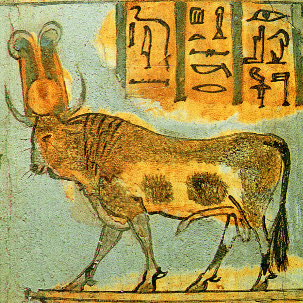 The sacred Apis bull shown on a Twenty-first dynasty Egyptian coffin.